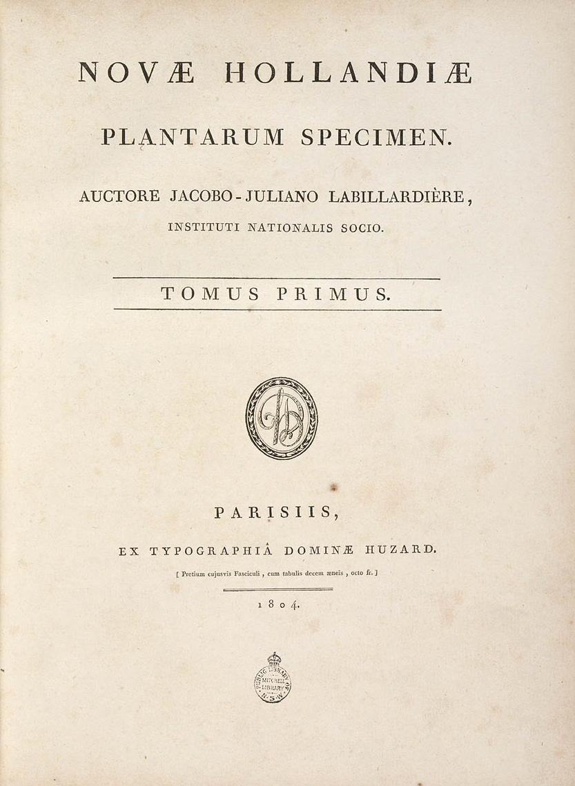 The title page from